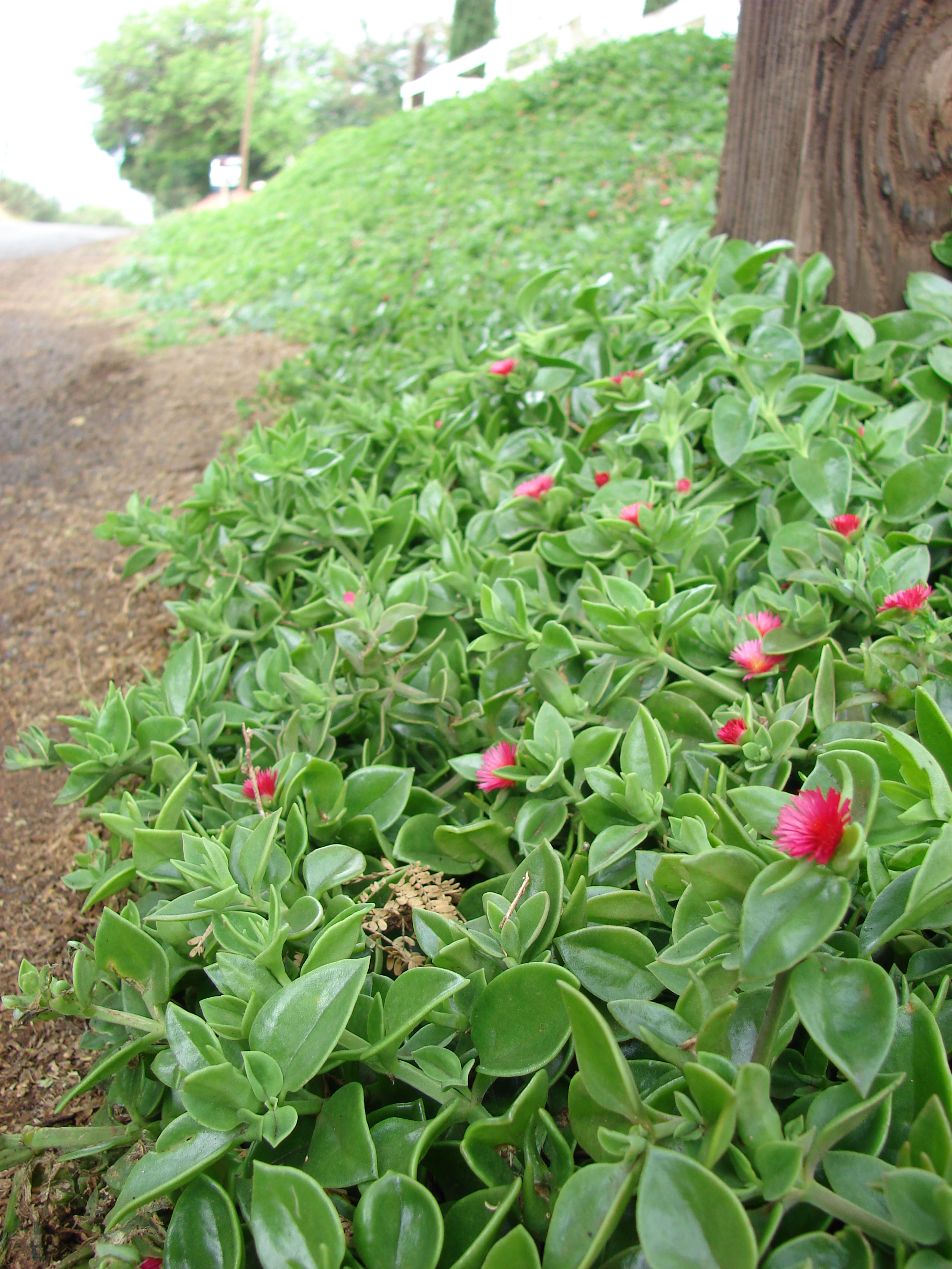 Aptenia cordifolia (flowering habit). Location: Maui, Omaopio